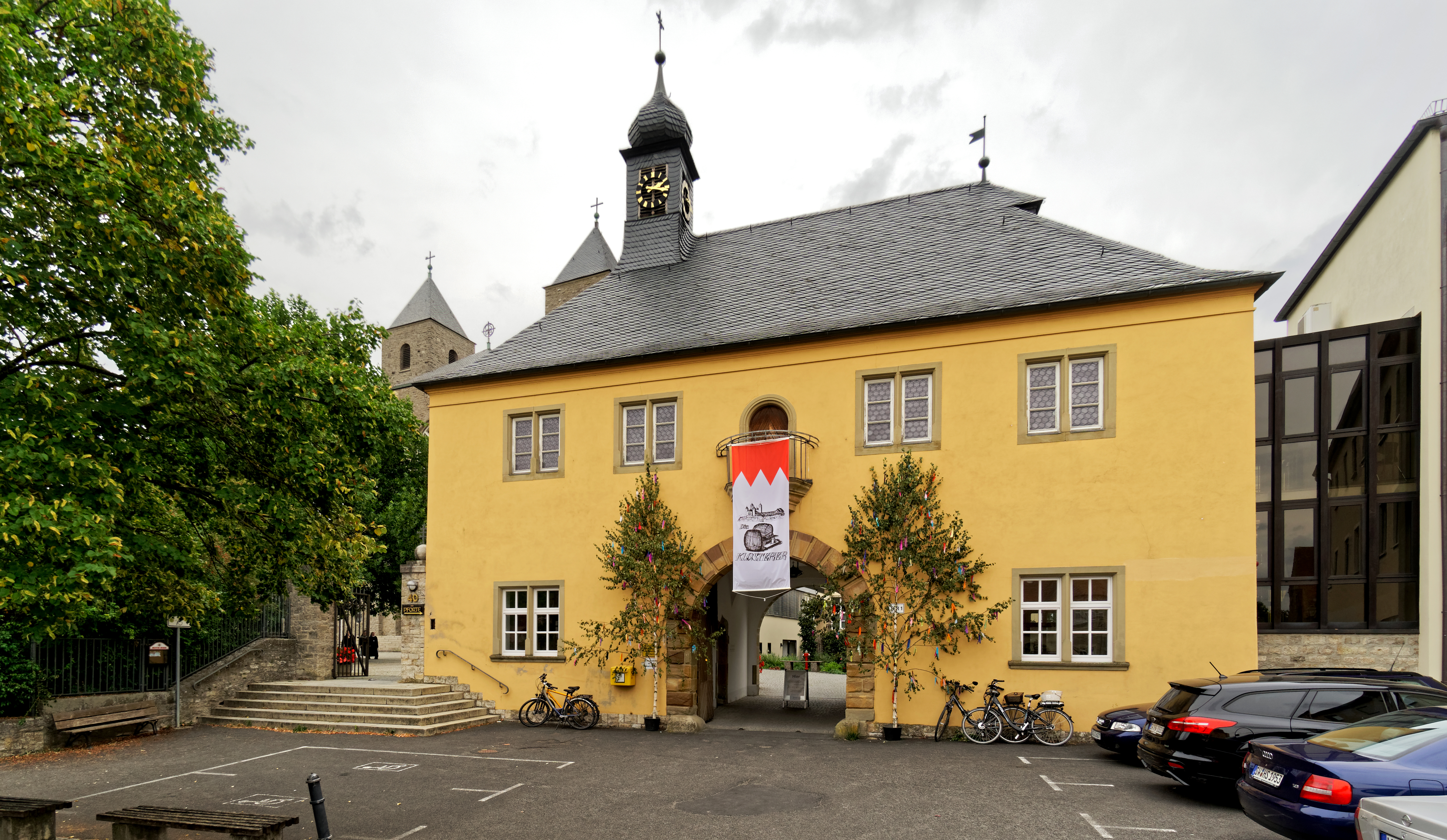 The Benedictine Abbey of Münsterschwarzach.